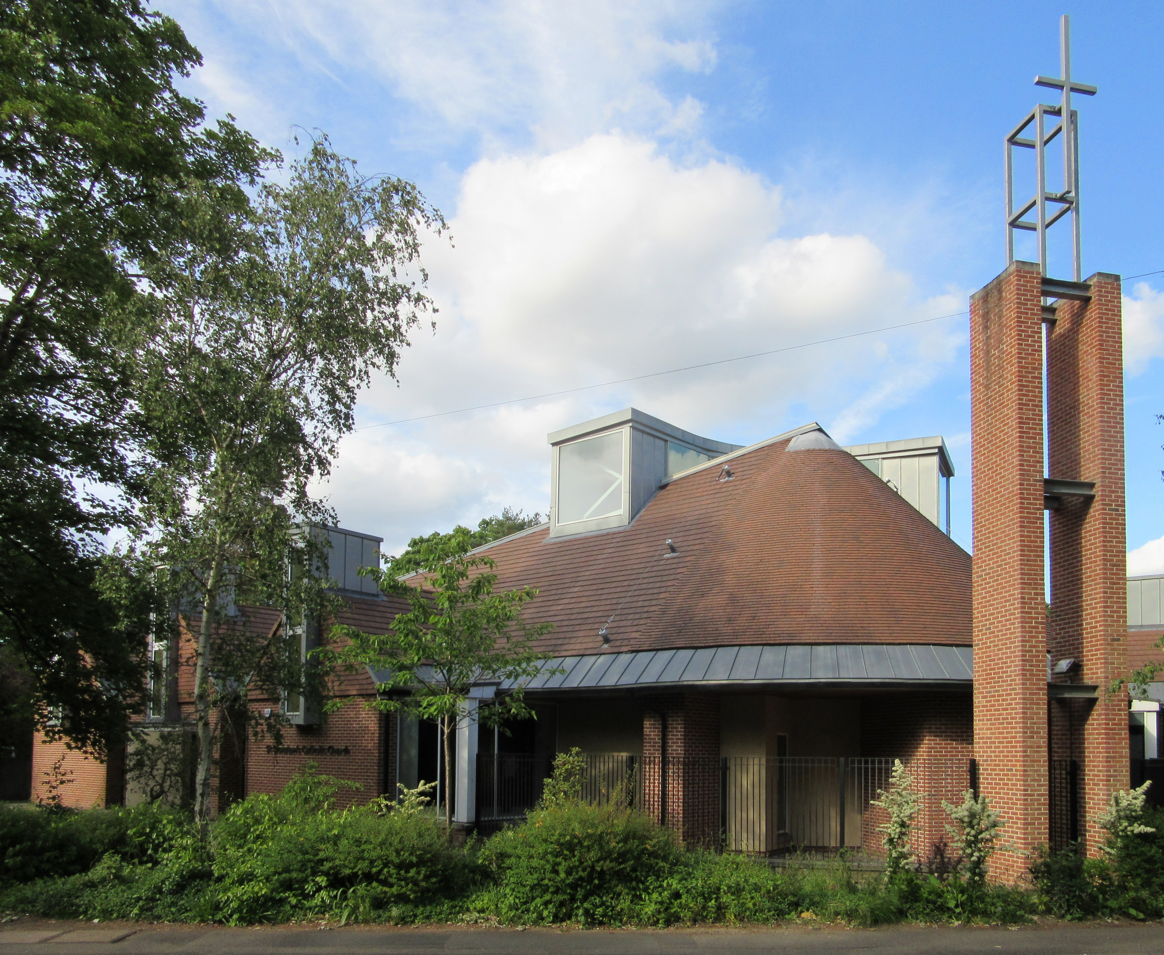 St Dunstan's Church, Shaftesbury Road, Maybury, Woking, Borough of Woking, Surrey, England. The Roman Catholic parish church of Woking, completed in 2008. It is the third church of this dedication in Woking; the original was on Percy Street, followed by one on White Rose Lane which was used until this building opened.